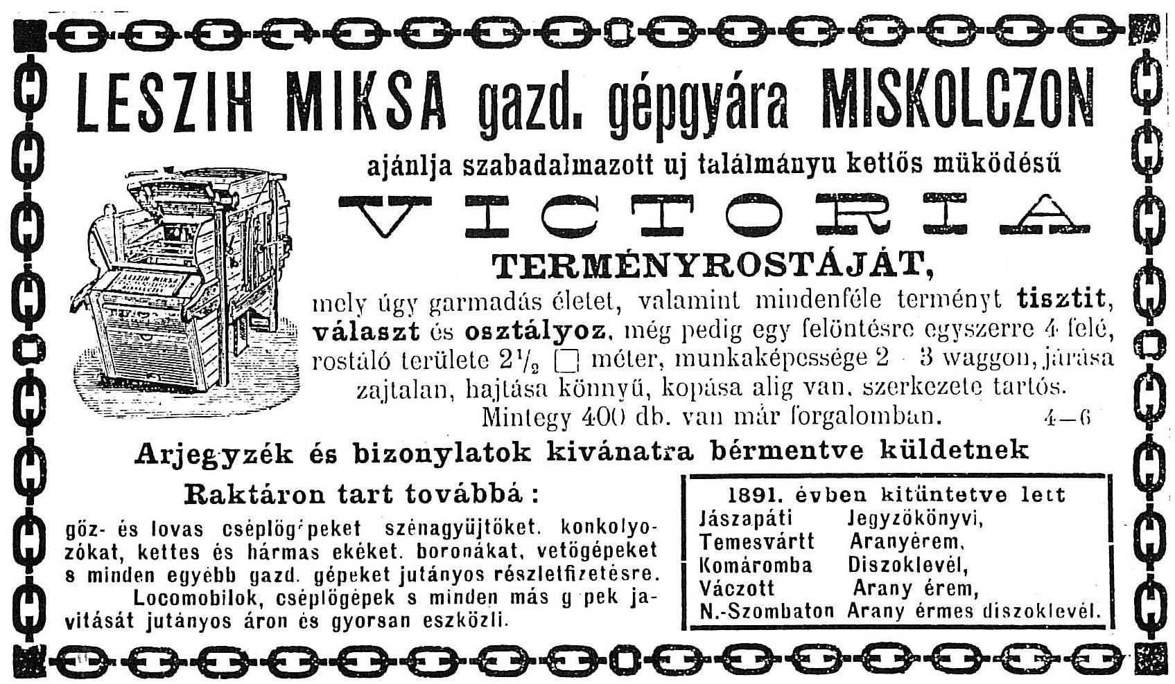 Miksa Leszih's Machine Factory Advertising from 1891